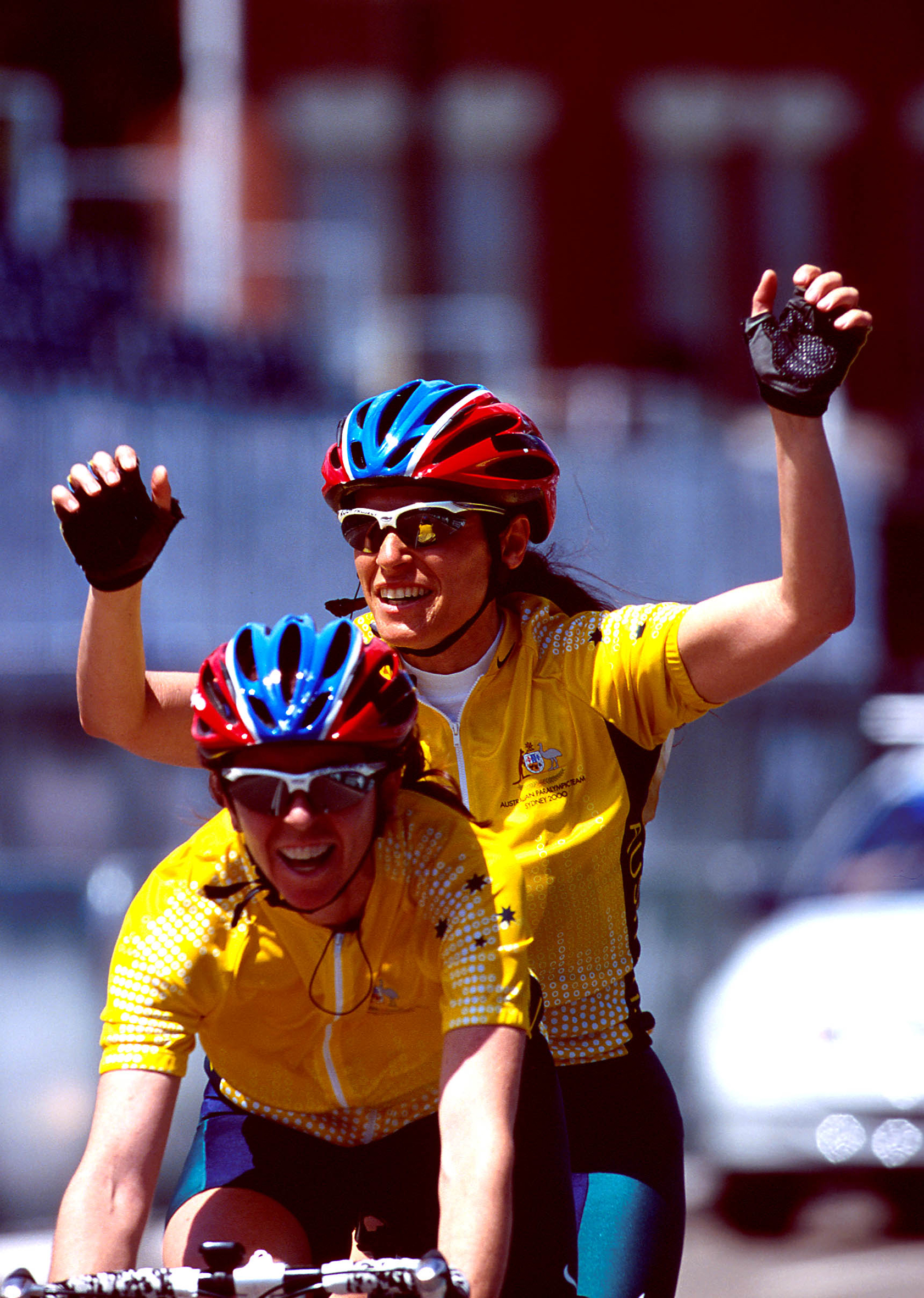 Close up of Australian road cyclists Lynette Nixon and Lyn Lepore celebrating their gold medal win in the 2000 Sydney Paralympic Games road race